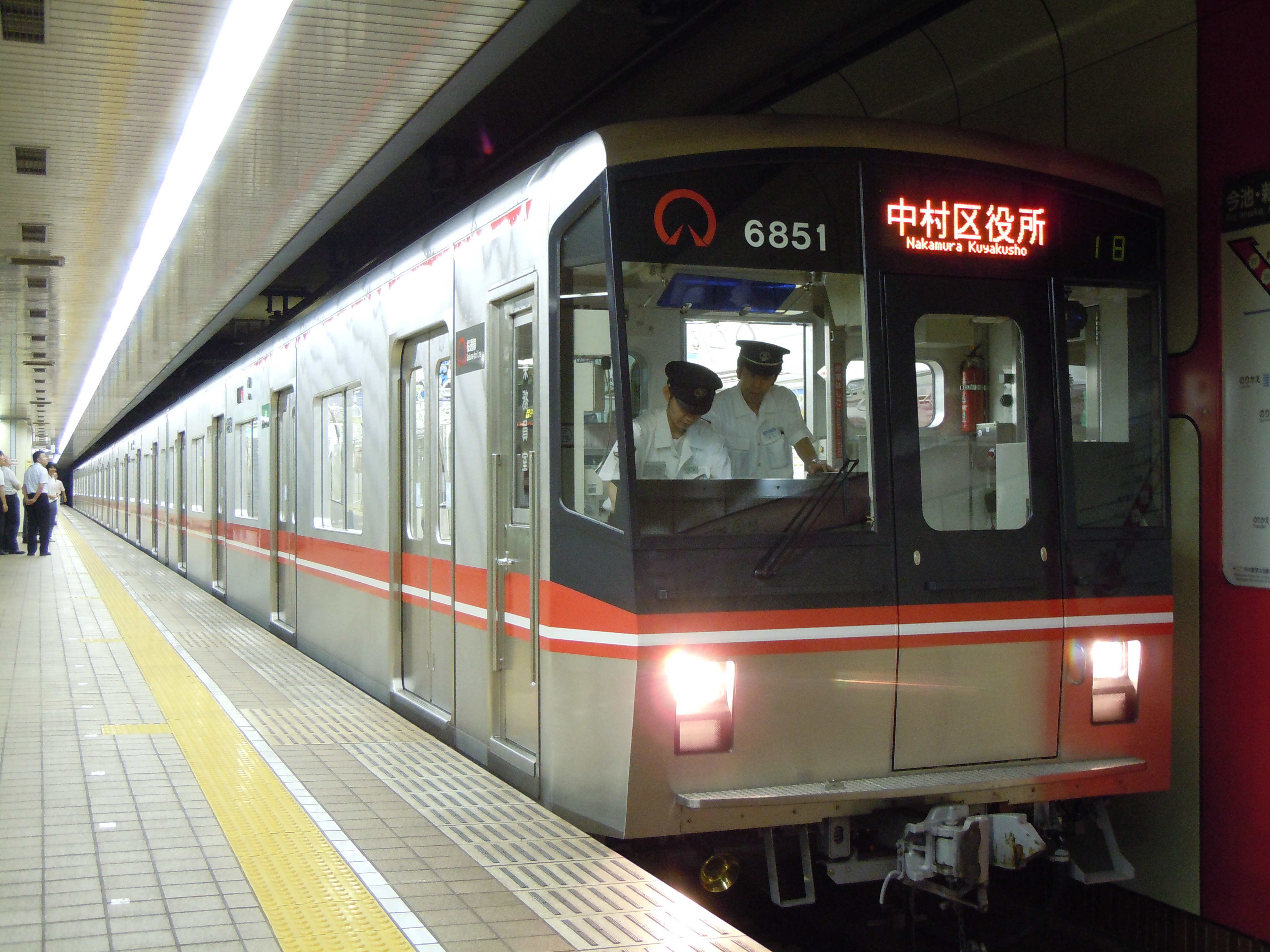 Nagoya Subway 6050 series EMU set 6151 at Nakamura Kuyakusho Station on the Sakura-dōri Line